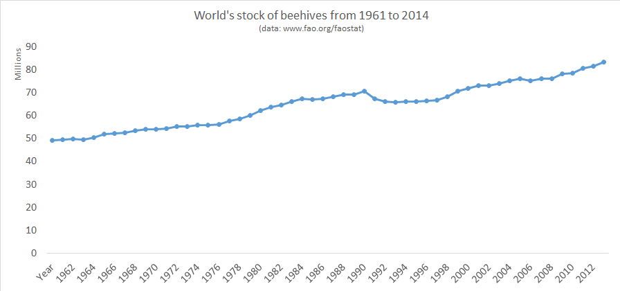 The world's stock of beehives from 1961 to 2014 based on FAO raw data (